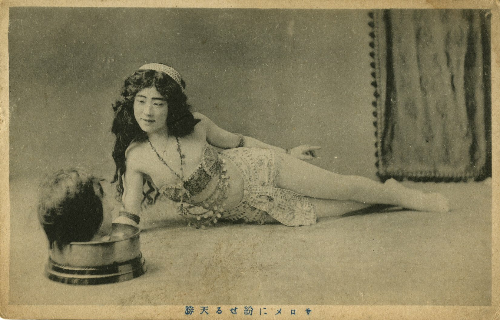 Postcard of Japanese magician Shokyokusai Tenkatsu playing Salome with the head of John the Baptist